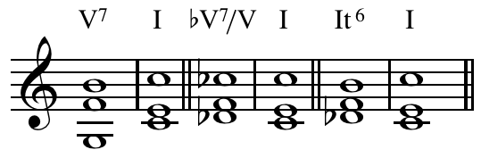 Original, tritone substitution, and augmented sixth chord. Created by Hyacinth (talk) using Sibelius 5. Tritone substitution with original (unsubstituted) and notated as Italian augmented sixth.